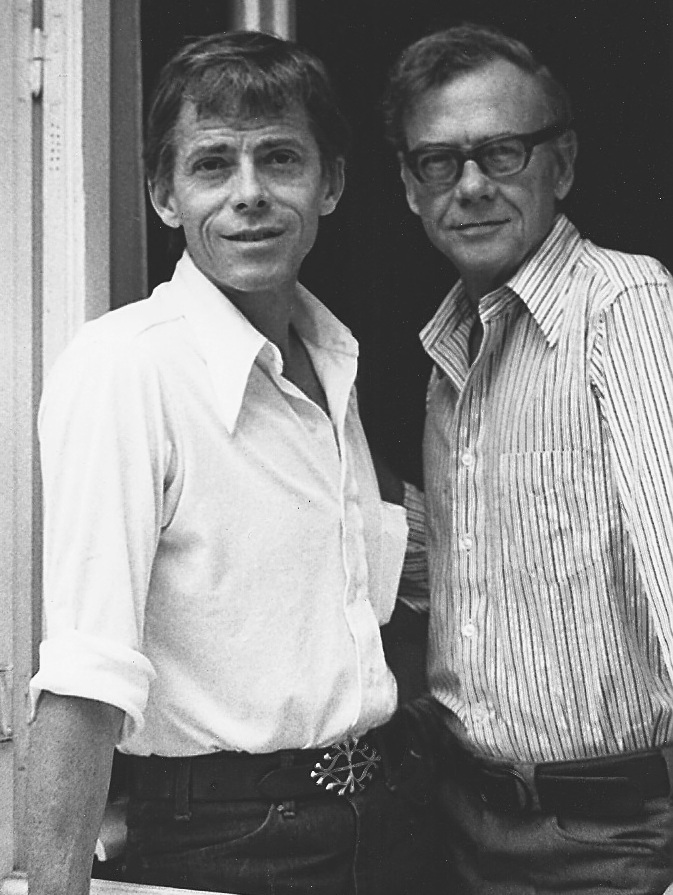 James Merrill (1926-1995) and David Jackson (1922-2001) in Athens, 14 October 1973